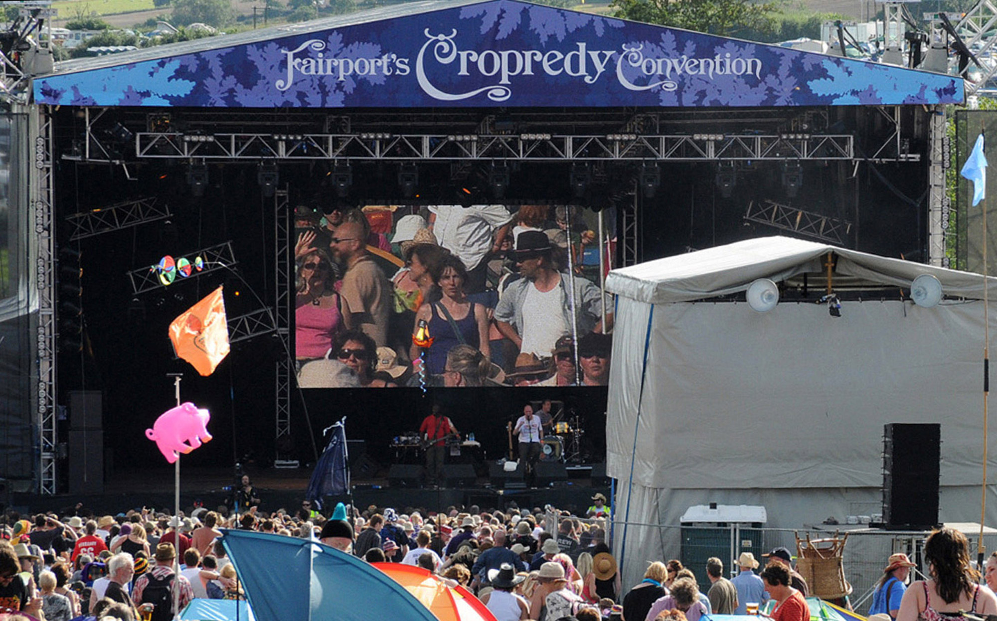 A view of the stage at Fairport's Cropredy Convention music festival in August 2009